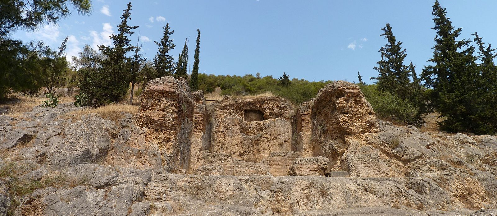 The Nymphaions of Ancient Argos - more information visit Ploync